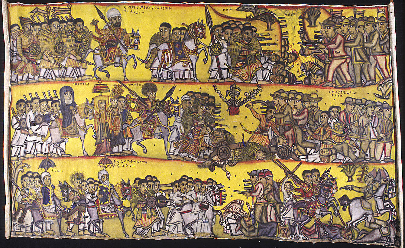 Painting depicting the Battle of Adwa.